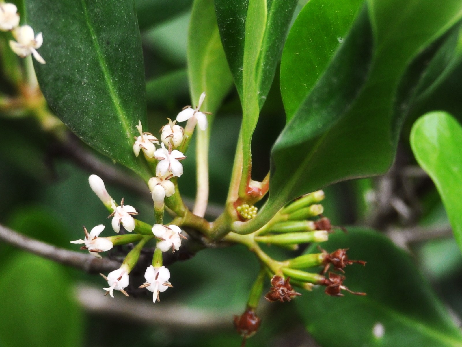 Scyphiphora hydrophylacea; flowering twig. From Pulau Laut, South Kalimantan, Indonesia.